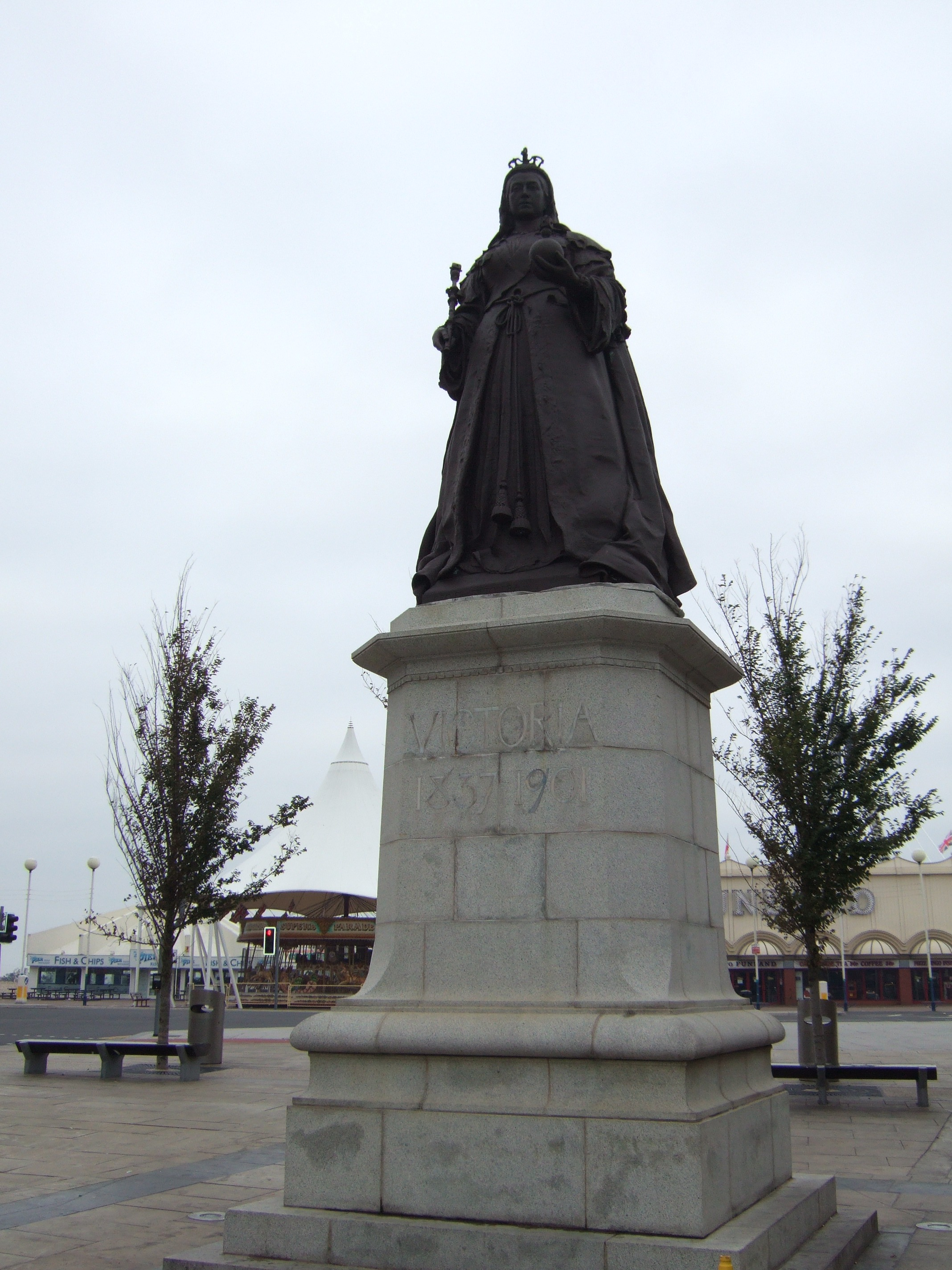 Statue of Queen Victoria on Southport promenade, Merseyside, England.